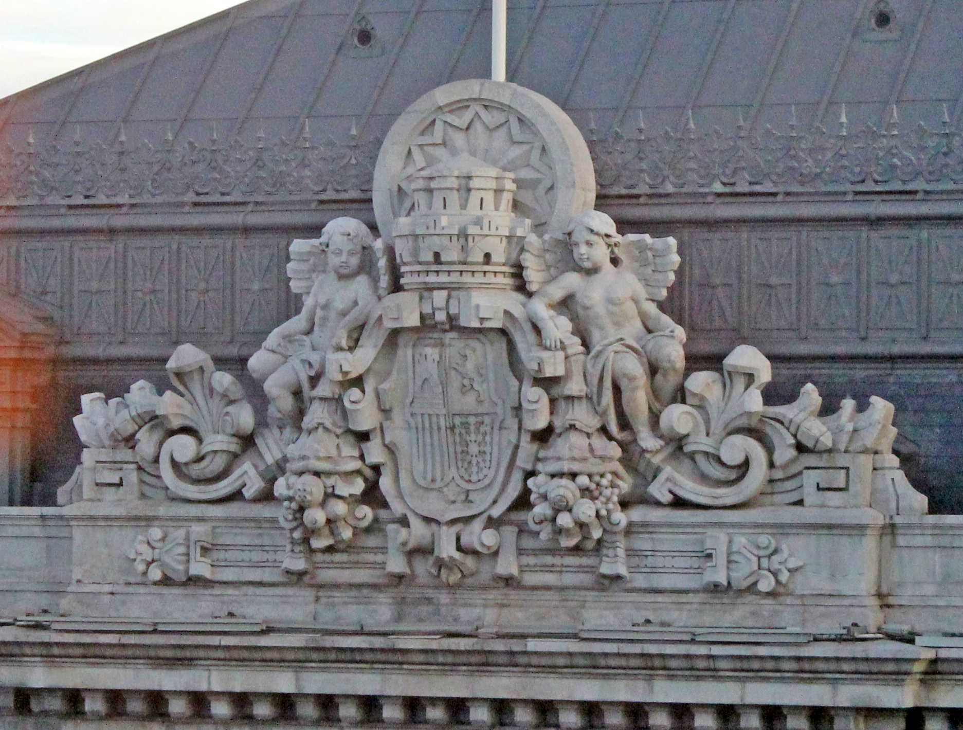 Relief showing the coat of arms of the Second Spanish Republic.